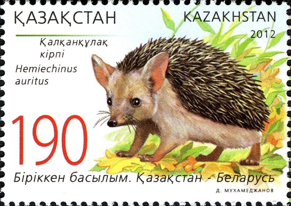 Stamps of Kazakhstan, 2012